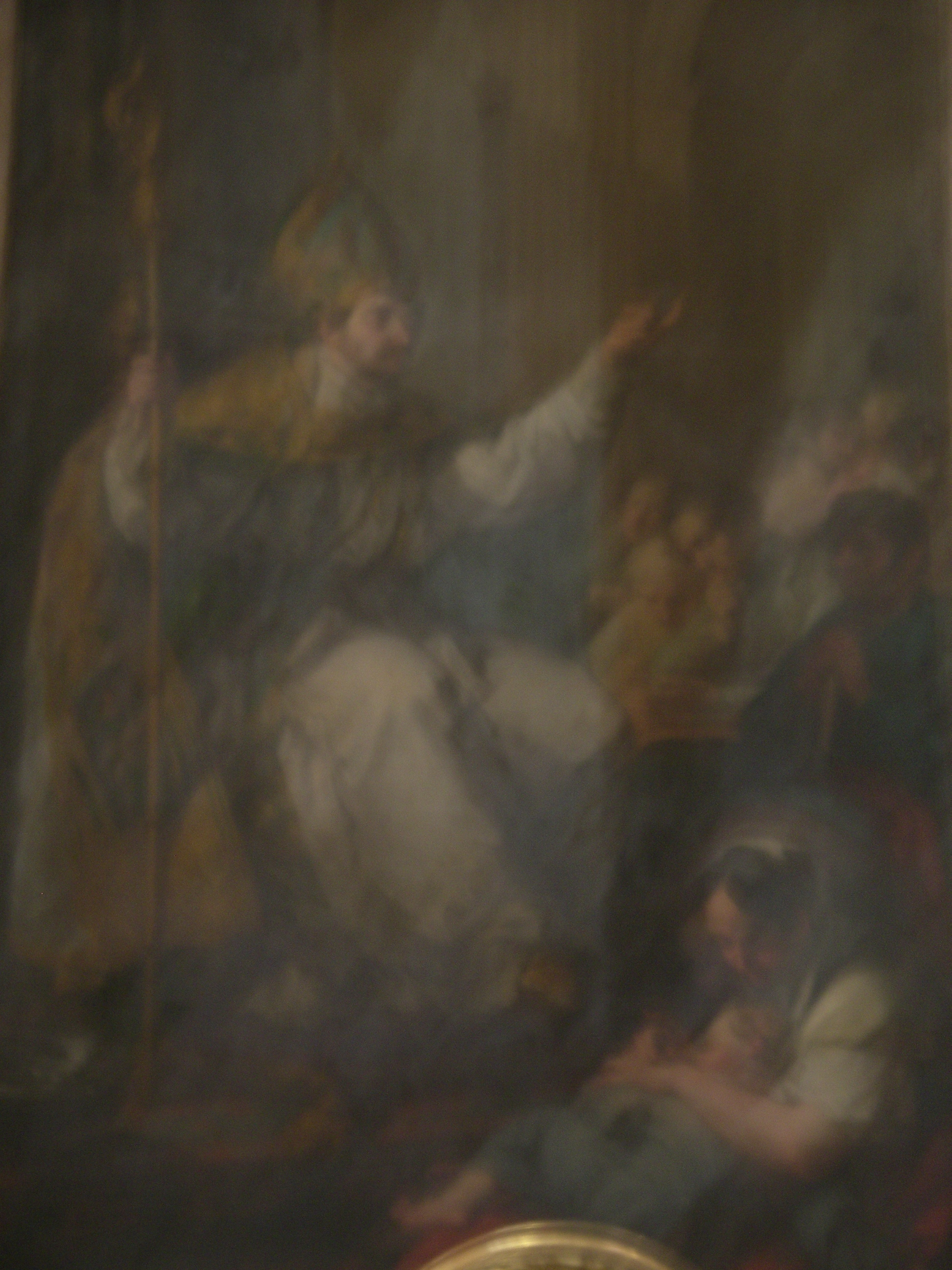 Saint Rufus of Tortosa, painting of 18th cent., at Tortosa cathedral